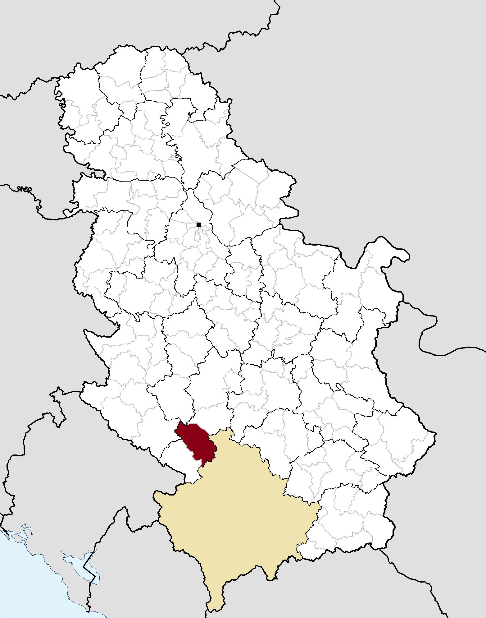 Municipal location in Serbia